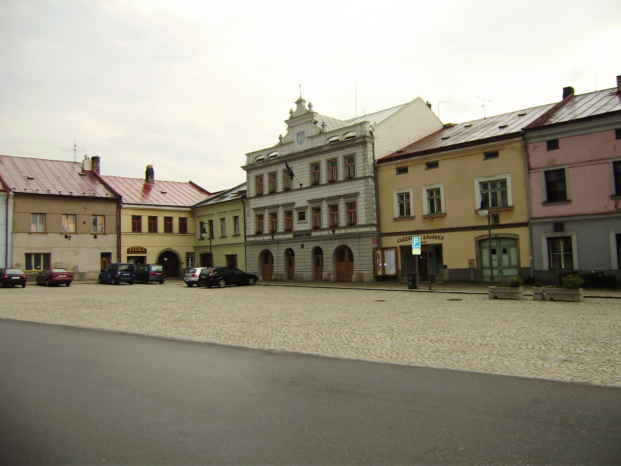 Squeare corner in Polná